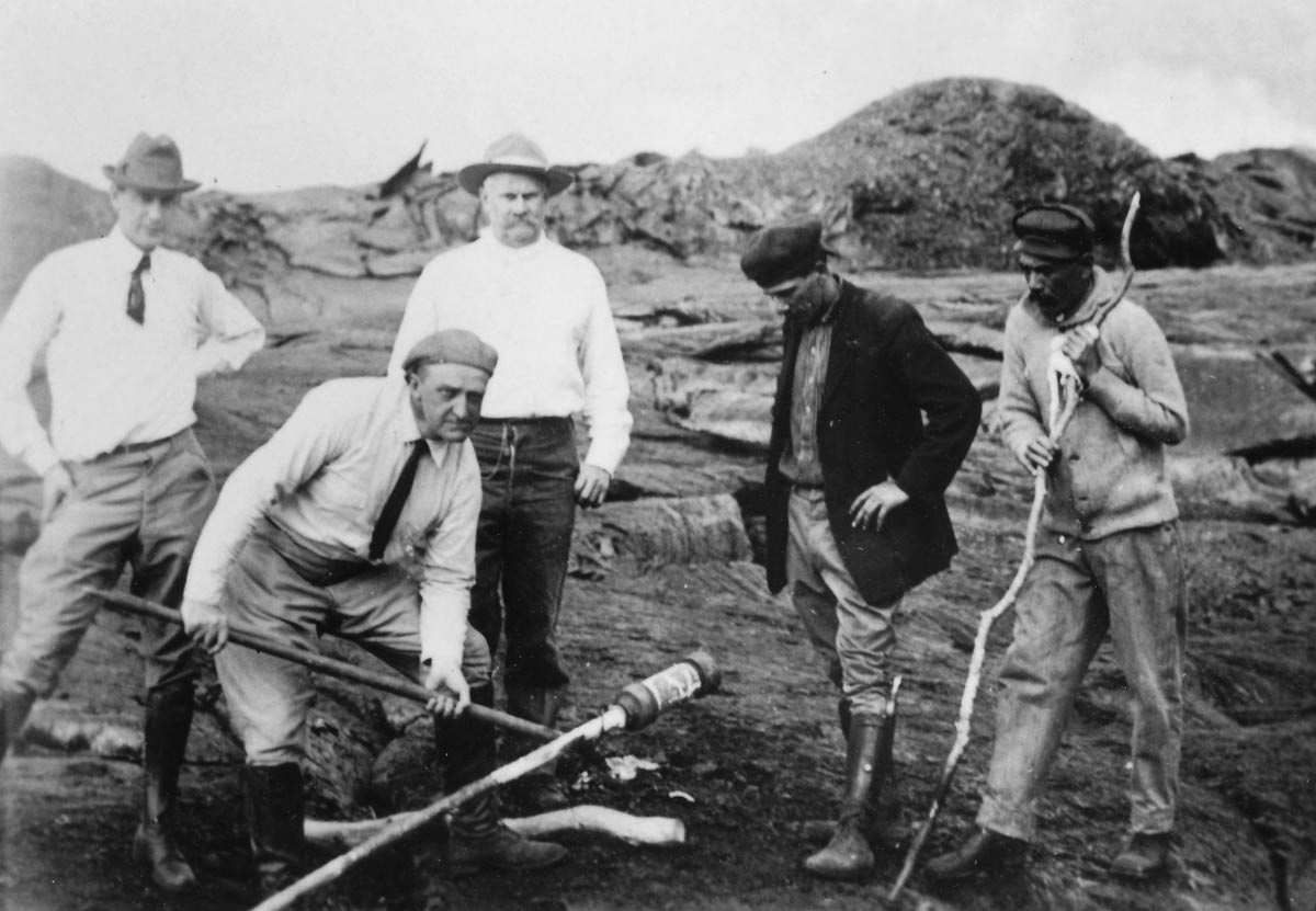 Measuring lava at Halema'uma'u, Kilauea in 1917. Left to right, Norton Twigg-Smith, Thomas Jaggar, Lorrin Thurston, Joe Monez, and Alex Lancaster. From USGS archives. Jaggar directed the Hawaiian Volcano Observatory from 1912 to 1940, and Lorrin Thurston organized the overthrow of the Kingdom of Hawaii.